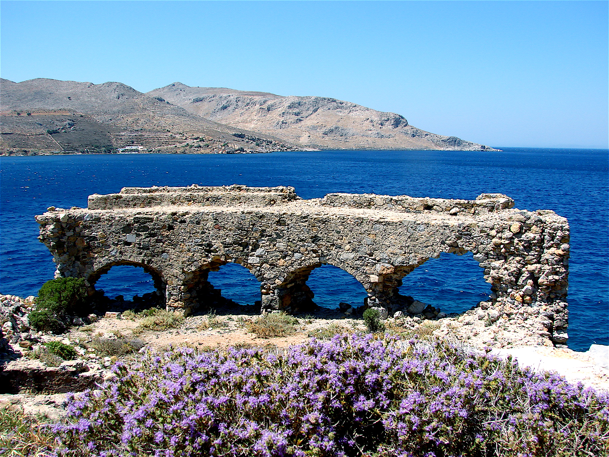 roman fortress